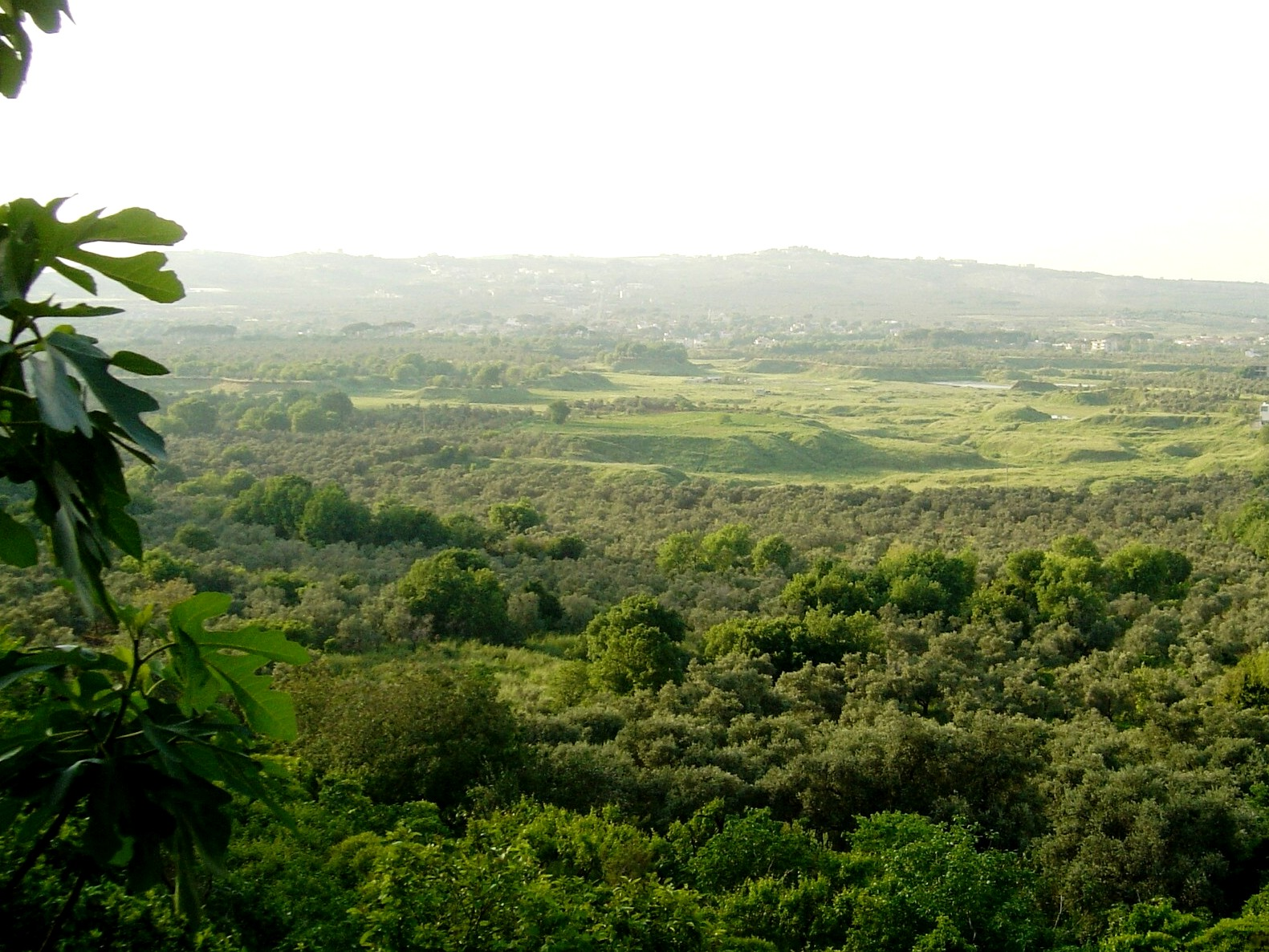 This vast olive plains are popular by the high quality of olive oil, traditionally extracted (cold refinery). The good quality of products is referred by the agricultures specialists to the adequately low quantity of water and relatively high minerals content in the soil.[a view from the old city] This vast olive plains are popular by the high quality of olive oil, traditionally extracted (cold refinery). The good quality of products is referred by the agricultures specialists to the adequately low quantity of water and relatively high minerals content in the soil.[a view from the old city]